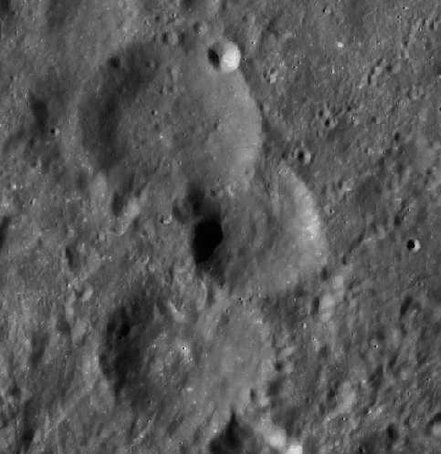 Volkov at top Lander bottom. Tsiolkovskiy secondaries at right image source LRO WAC.